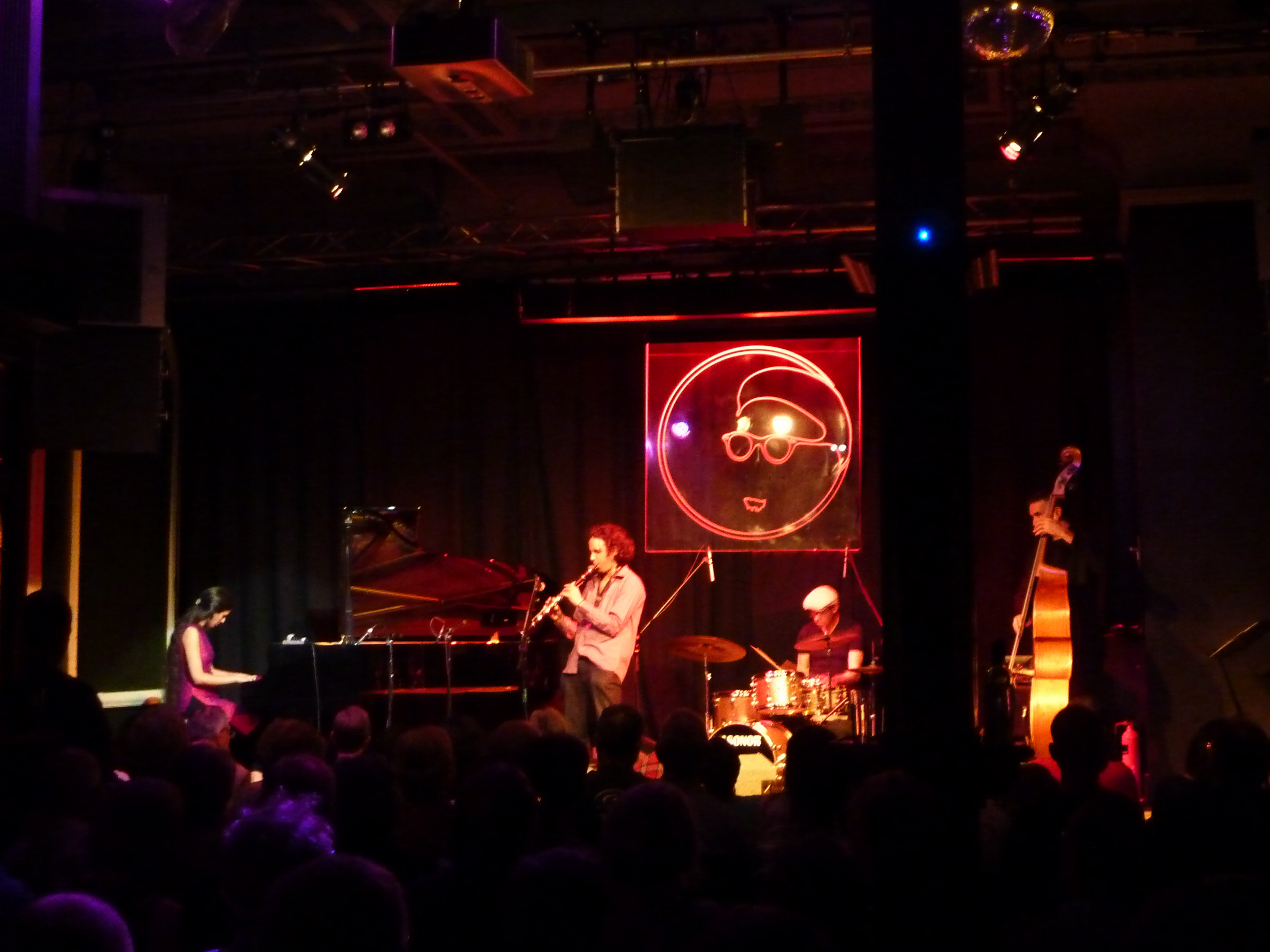 The Zoe Rahman Quartet performing at Manchester's Band On The Wall (Manchester Jazz Festival, 18 July 2012)